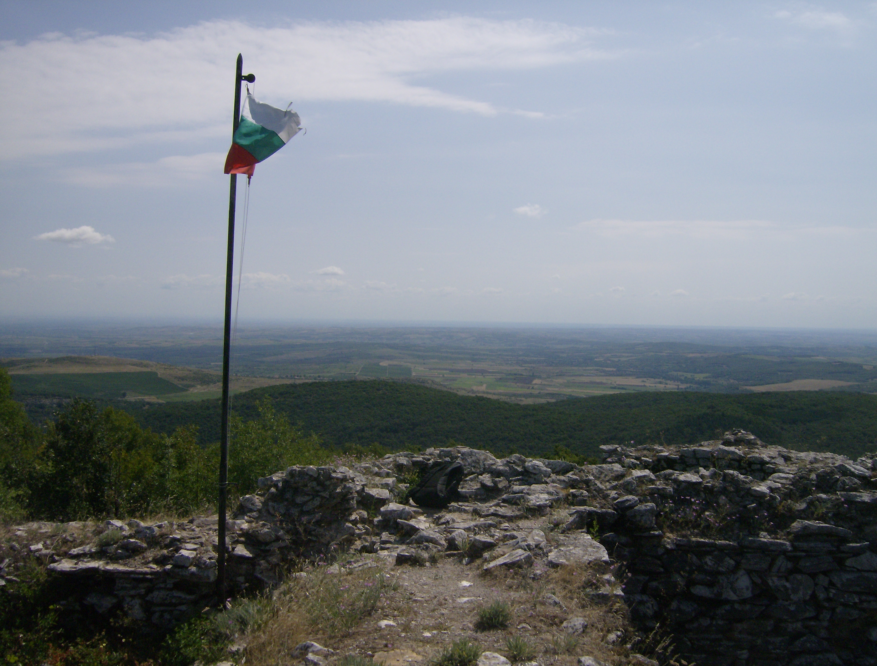 Lyutitsa Fortress